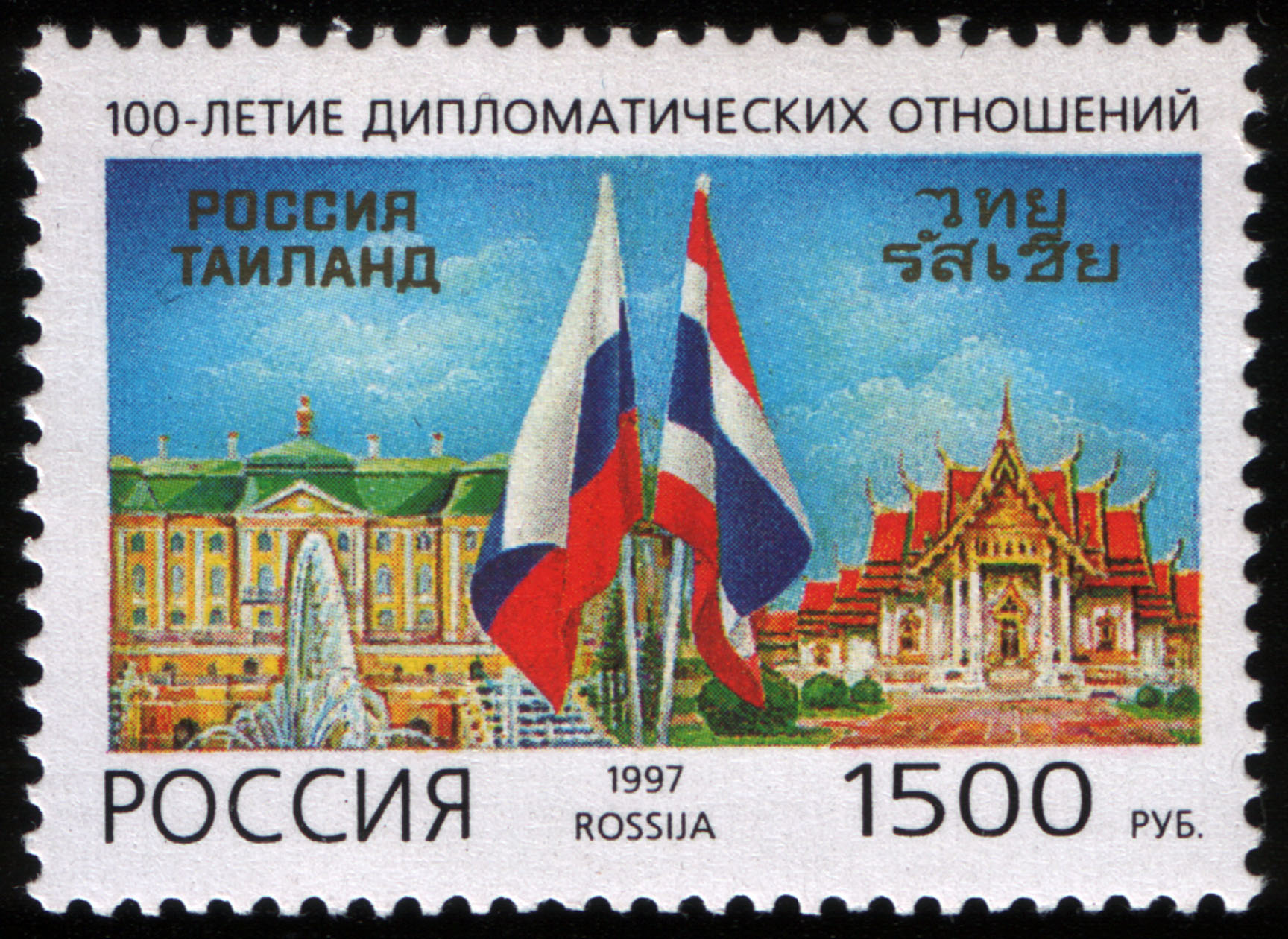 Stamps of Russia The 100th anniversary of diplomatic relations between Russia and Thailand, 1997